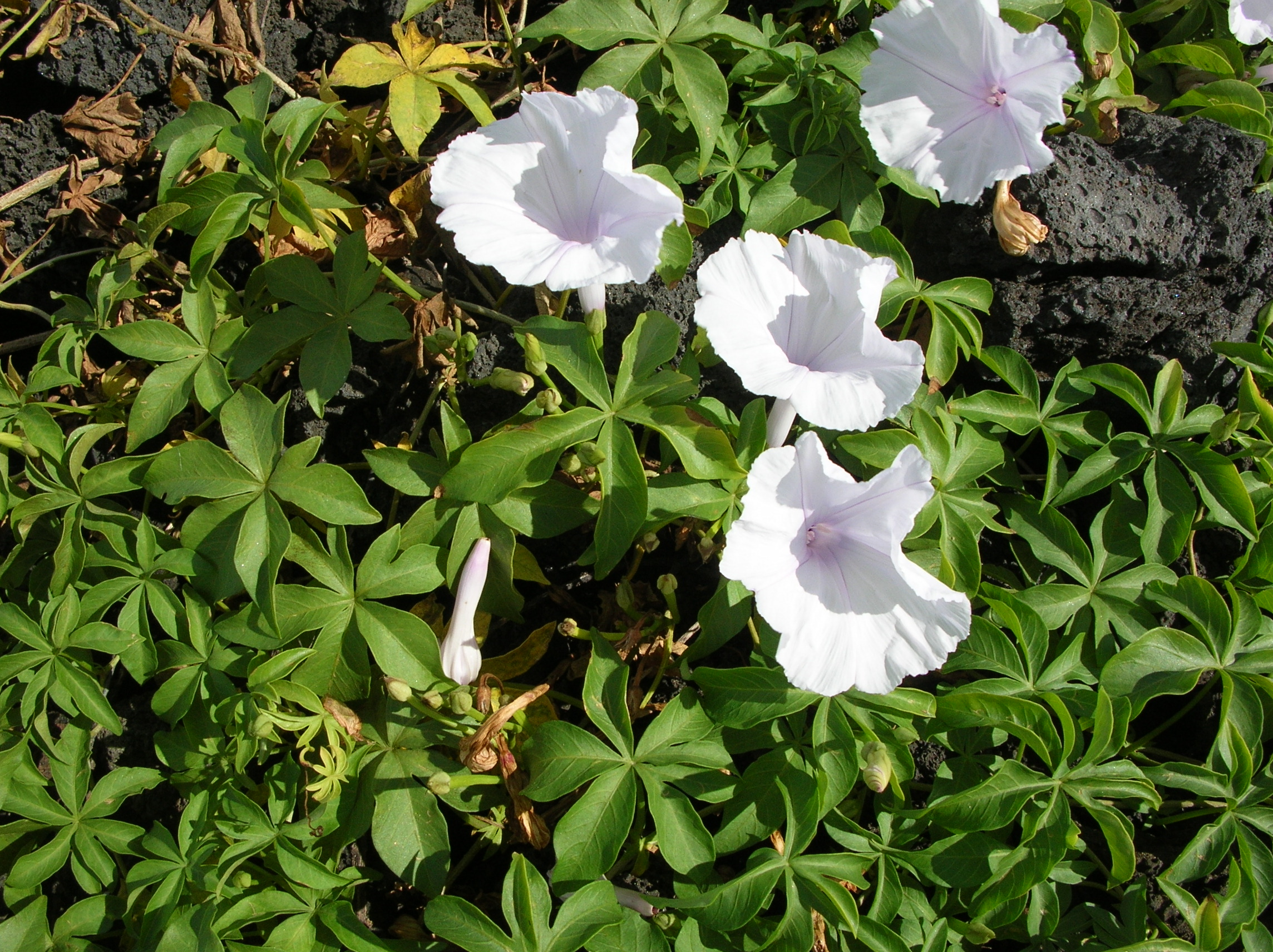 Ipomoea cairica (flowers). Location: Oahu, Kaohikaipu